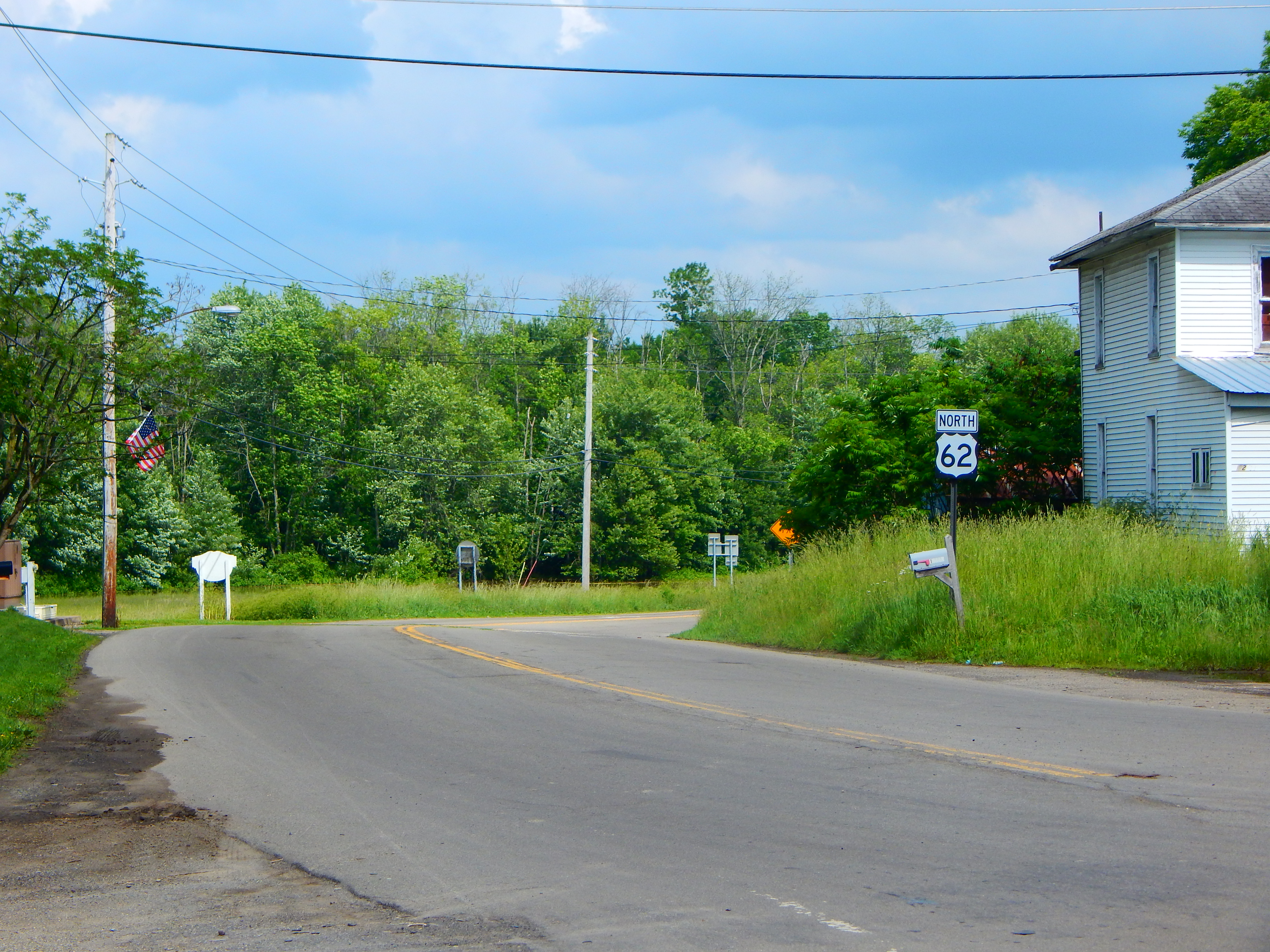 U.S. Route 62 northbound through Conewango Valley, New York.